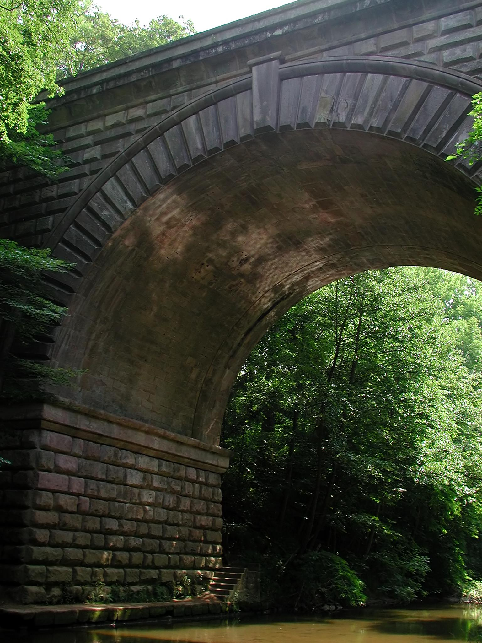 Picture of Ludwigs Canal bridging over the canyon of the Schwarzach. West side of the arch from below.